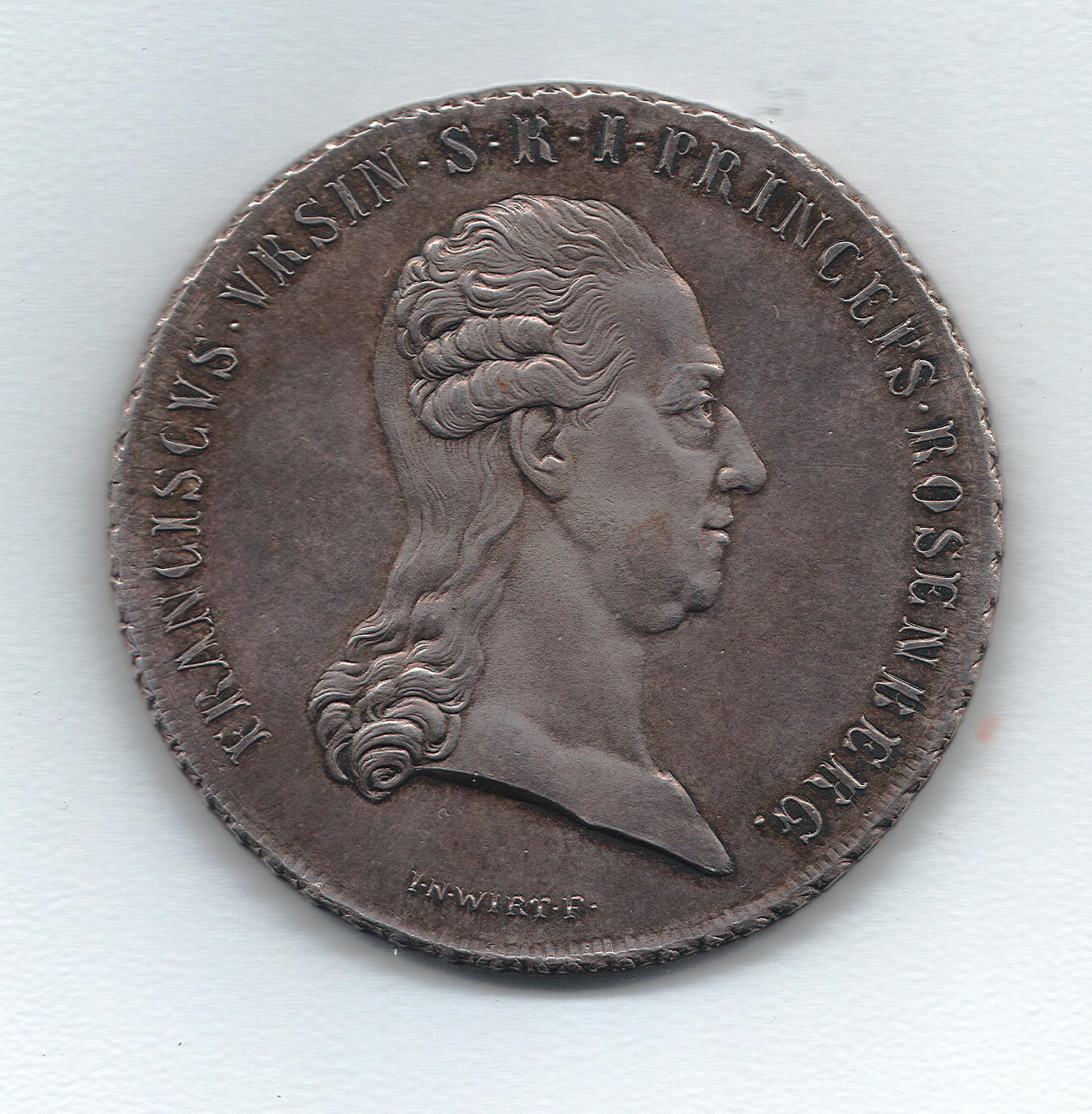 Franz Prince Orsini-Rosenberg Thaler 1793 obverse Johann Wirt engraver